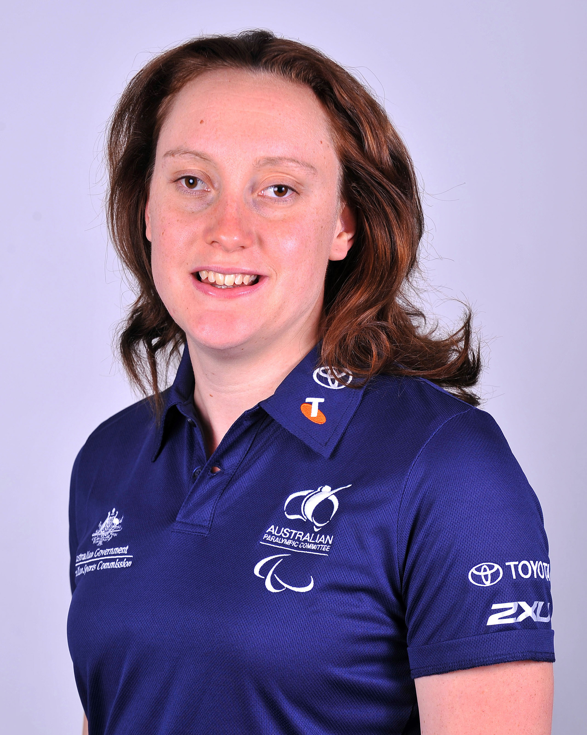 Portrait of Australian swimmer Prue Watt, 2012 Australian Paralympic (shadow) Team athlete